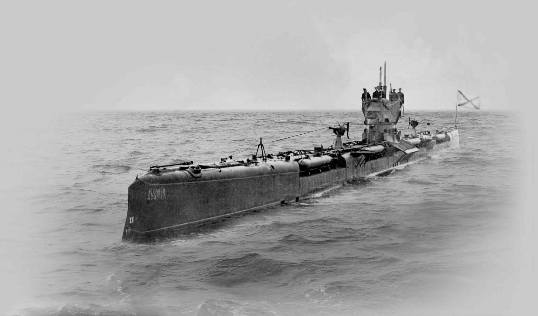 The Russian submarine «L'vitsa» with Dzhevetskiy system torpedo launchers.